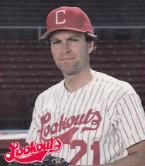 Professional baseball player Phil Dale